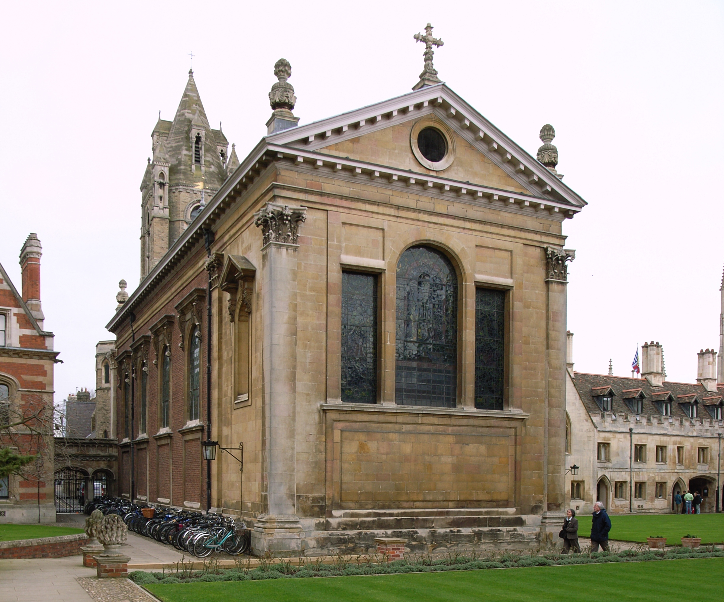 The Chapel of Pembroke College, Cambridge, England, seen from the east